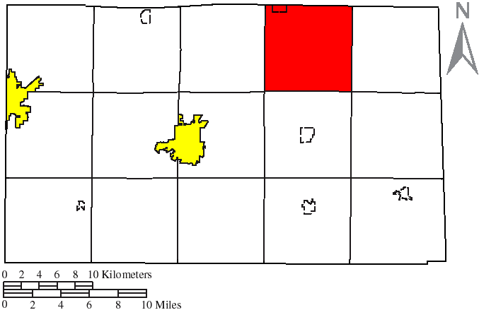 Made by the US Census and modified by myself